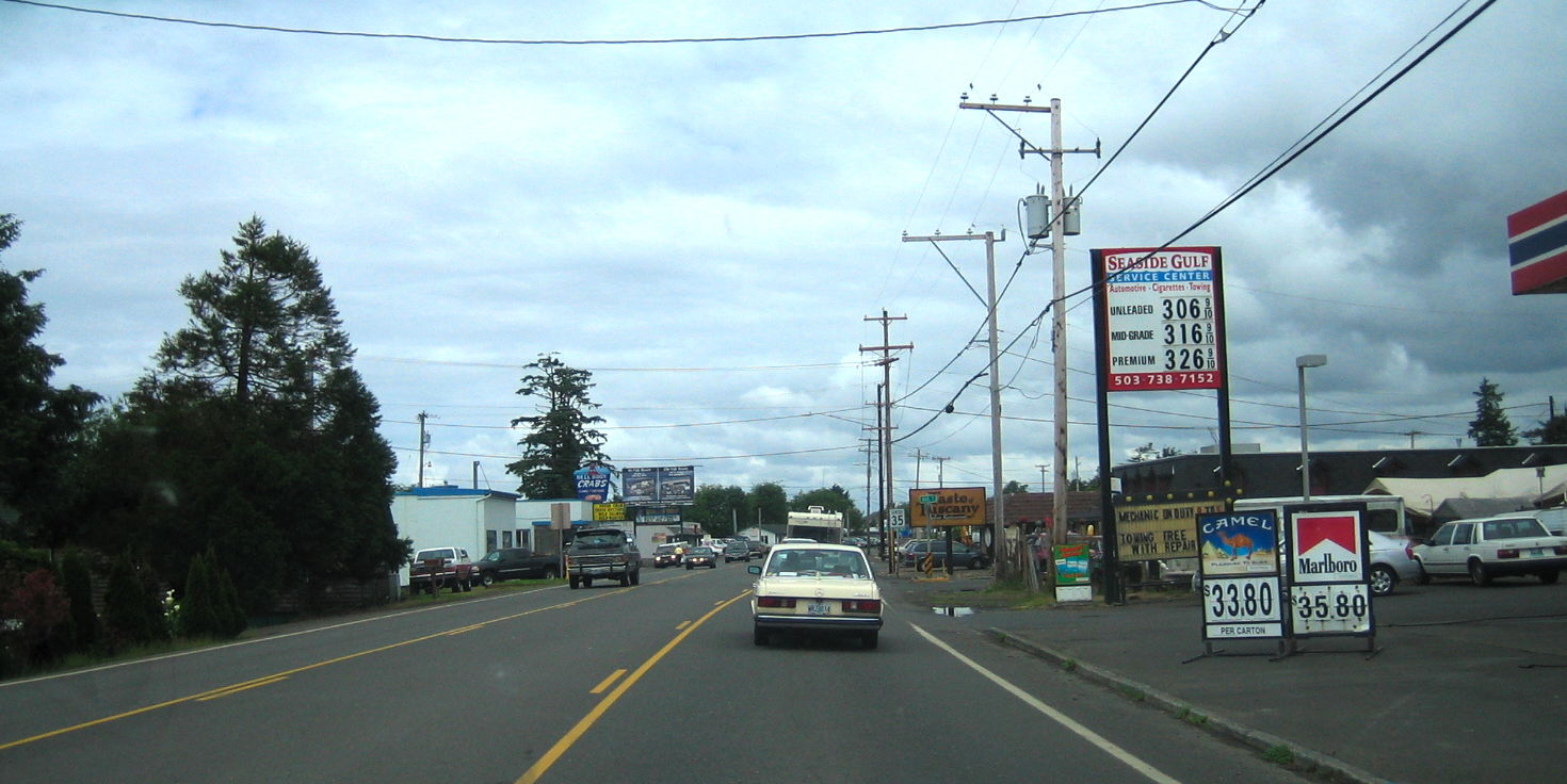 US 101 is the main street (Roosevelt Drive) through Seaside, Oregon and is frequently plagued by heavy traffic backups, especially during summer weekends. Photo taken June, 2006.